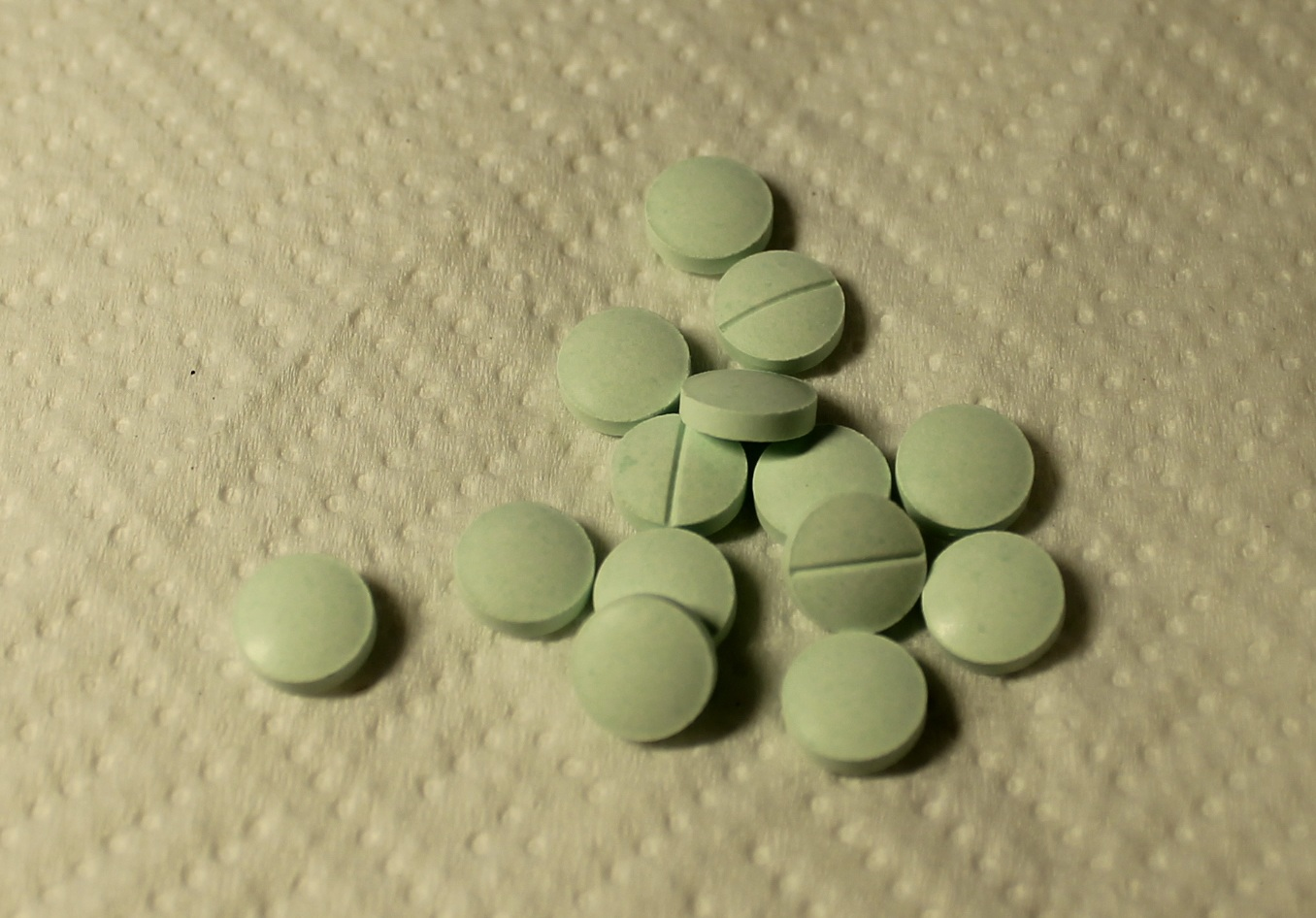 Propral (propranolol) 40mg